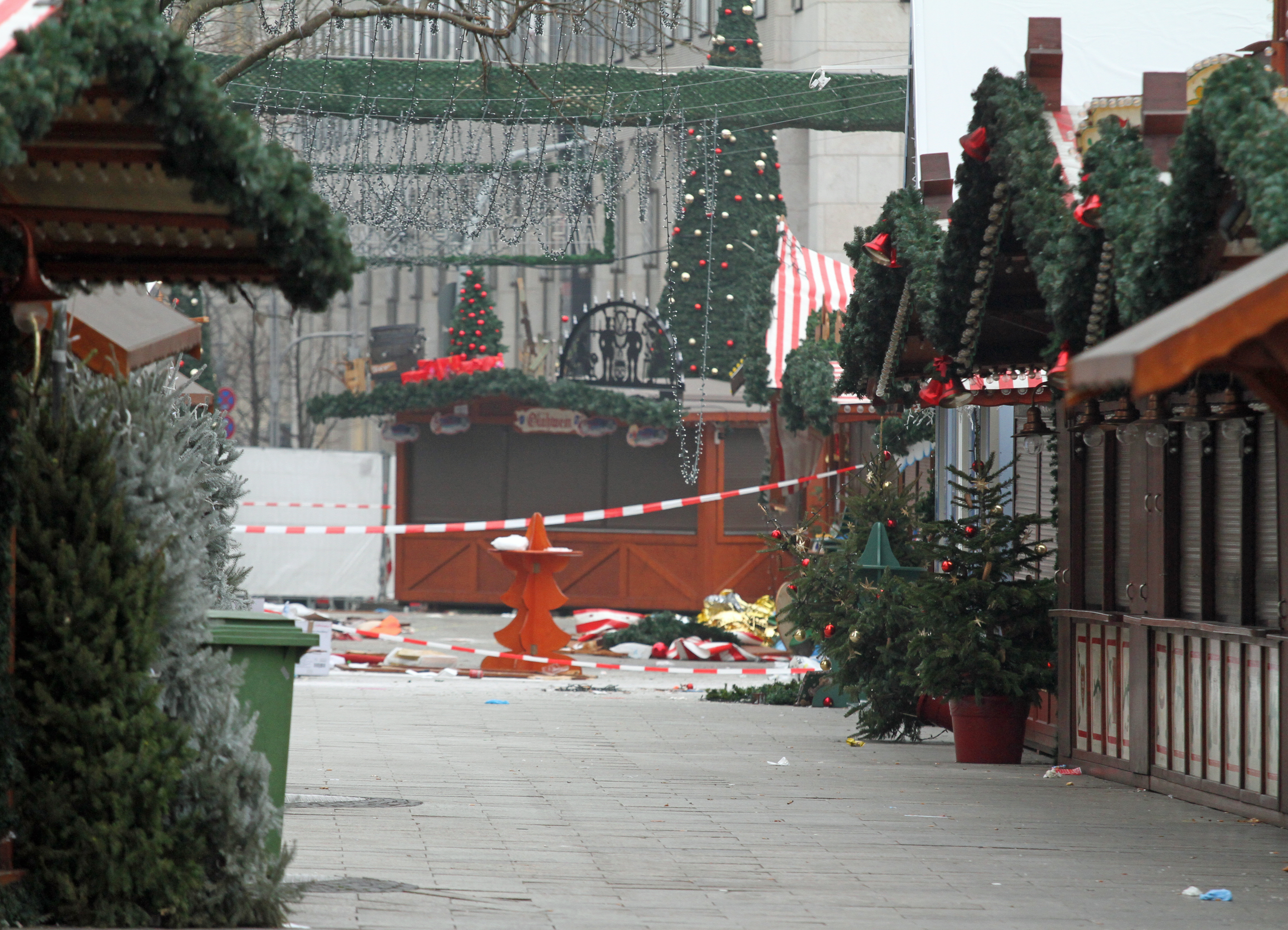 Berlin terrorist attack, 19 December 2016: picture from the day after